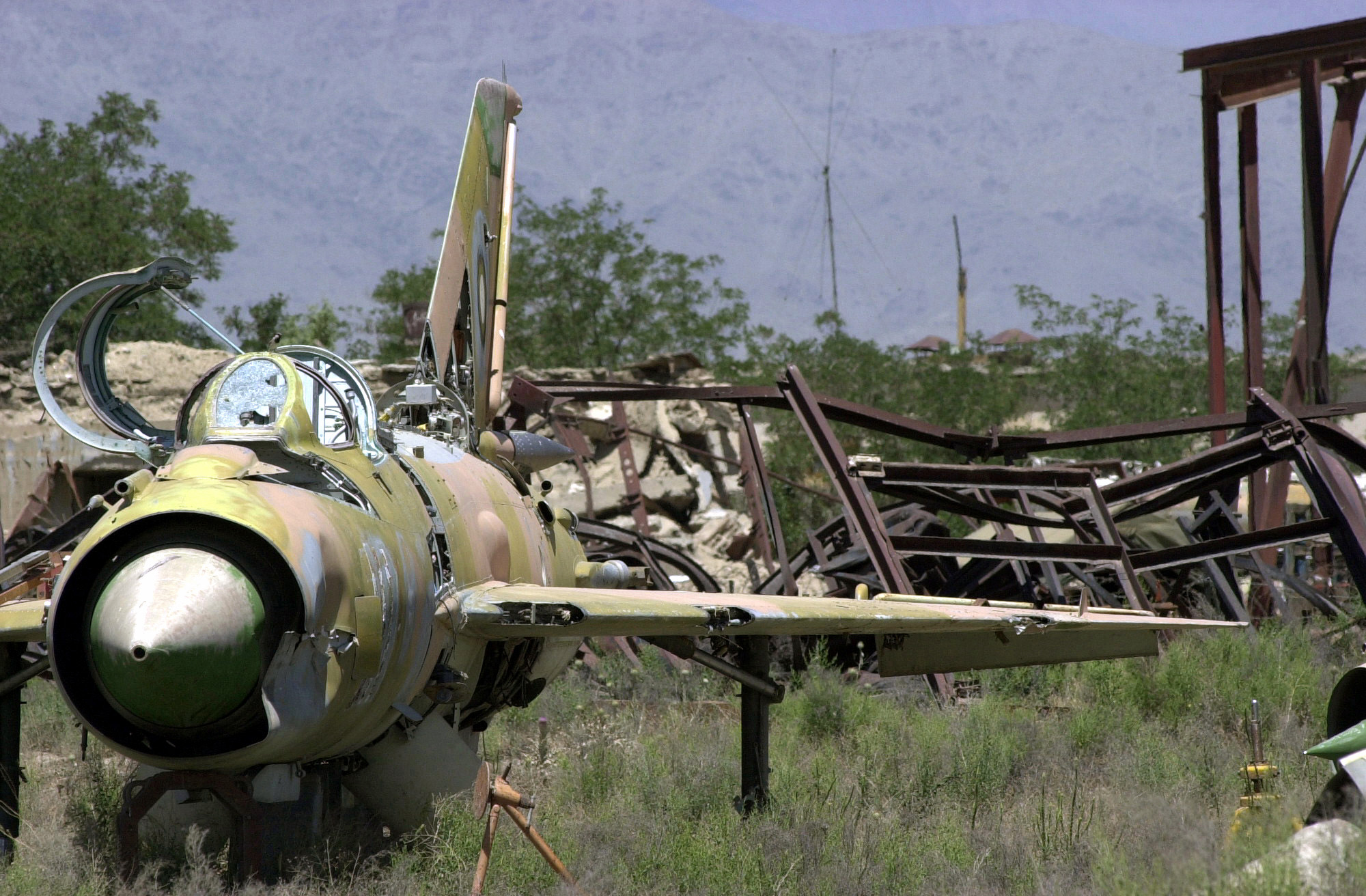 The wreckage of an abandoned Soviet Mig-21 Fishbed aircraft sits with rusted hardware in an open field near Bagram Air Base, Afghanistan, during Operation ENDURING FREEDOM. After over 20 years of war and civil unrest, the Afghan landscape is painted with pieces of old military hardware and unexploded ordnance.